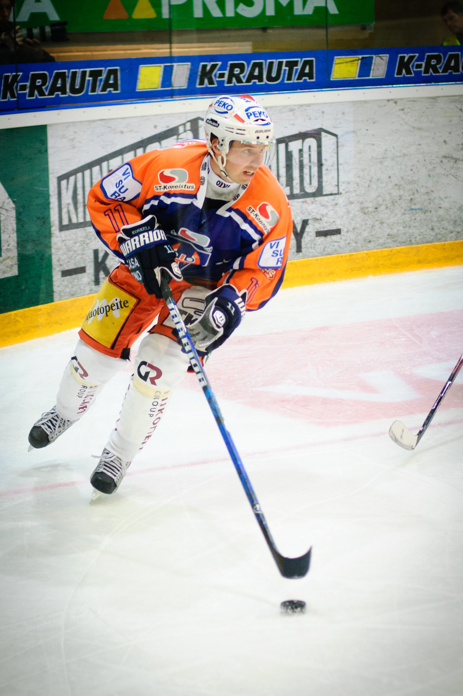 Finnish ice hockey player Timo Koskela playing for Tappara Tampere against SaiPa Lappeenranta in the Finnish SM-liiga in Lappeenranta, Finland.